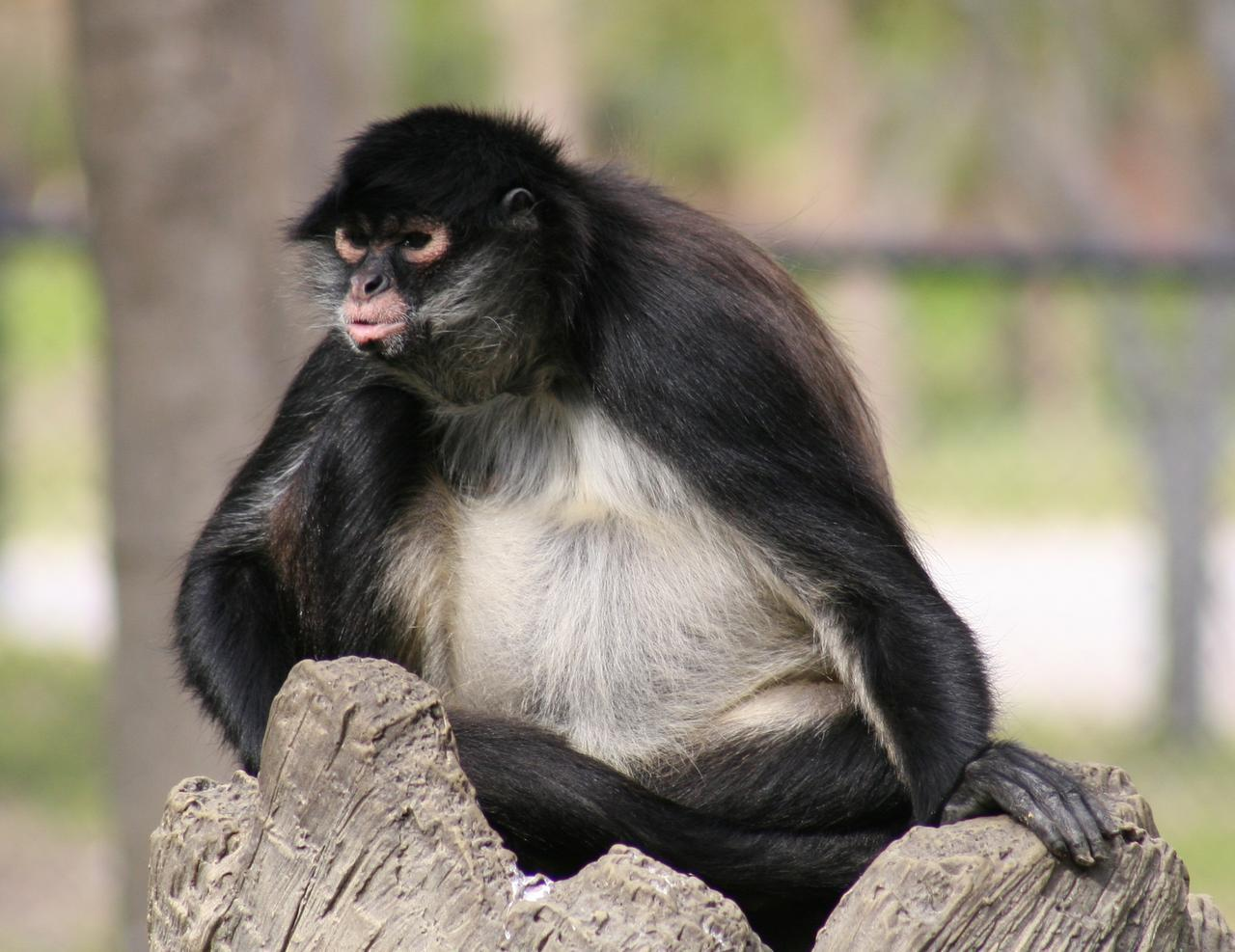 Mexican Spider Monkey (Ateles geoffroyi vellerosus), is a subspecies of Geoffroy's Spider Monkey. At Miami Zoo, USA.